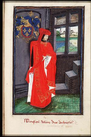 Statuts, Ordonnances et Armorial de l'Ordre de la Toison d'Or (Statutes, Ordonnances and armorial of the Order of the Golden Fleece) Place of origin, date: Southern Netherlands; 1473. Added sections: Southern Netherlands; 1478 or shortly after and 1491 or shortly after Material: Vellum, ff. 86, 249x187 (167x106) mm, 23 lines, littera cursiva (lettre bourguignonne). French. Binding: 18th-century brown leather Decoration: 1 full-page miniature (170x115 mm) with border decoration; 92 miniatures (185/155x120/100 mm); 1 historiated initial (80x90 mm) with border decoration; decorated initials with border decoration (ff., Added section: miniatures ; 4 drawings for miniatures (not finished) Provenance: Presented in 1473 by Gilles Gobet, King of Arms of the Order of the Golden Fleece, to Charles the Bold, Duke of Burgundy and the other Knights during the Chapter of the Order held at Valenciennes; Treasure of the Golden Fleece, Brussls; taken away by the Treasurer C.-F. Humyn (d. 1735) or his daughter C.Ch. de Corte; by legacy to her daughter M.-L. de Corte, wife of Ph.-E. de Poederlé; purchased in 1781 at the Poederlé sale by G.-J- Gérard of Brussels; acquired in 1832 as part of the Gérard collection (no. A 27)